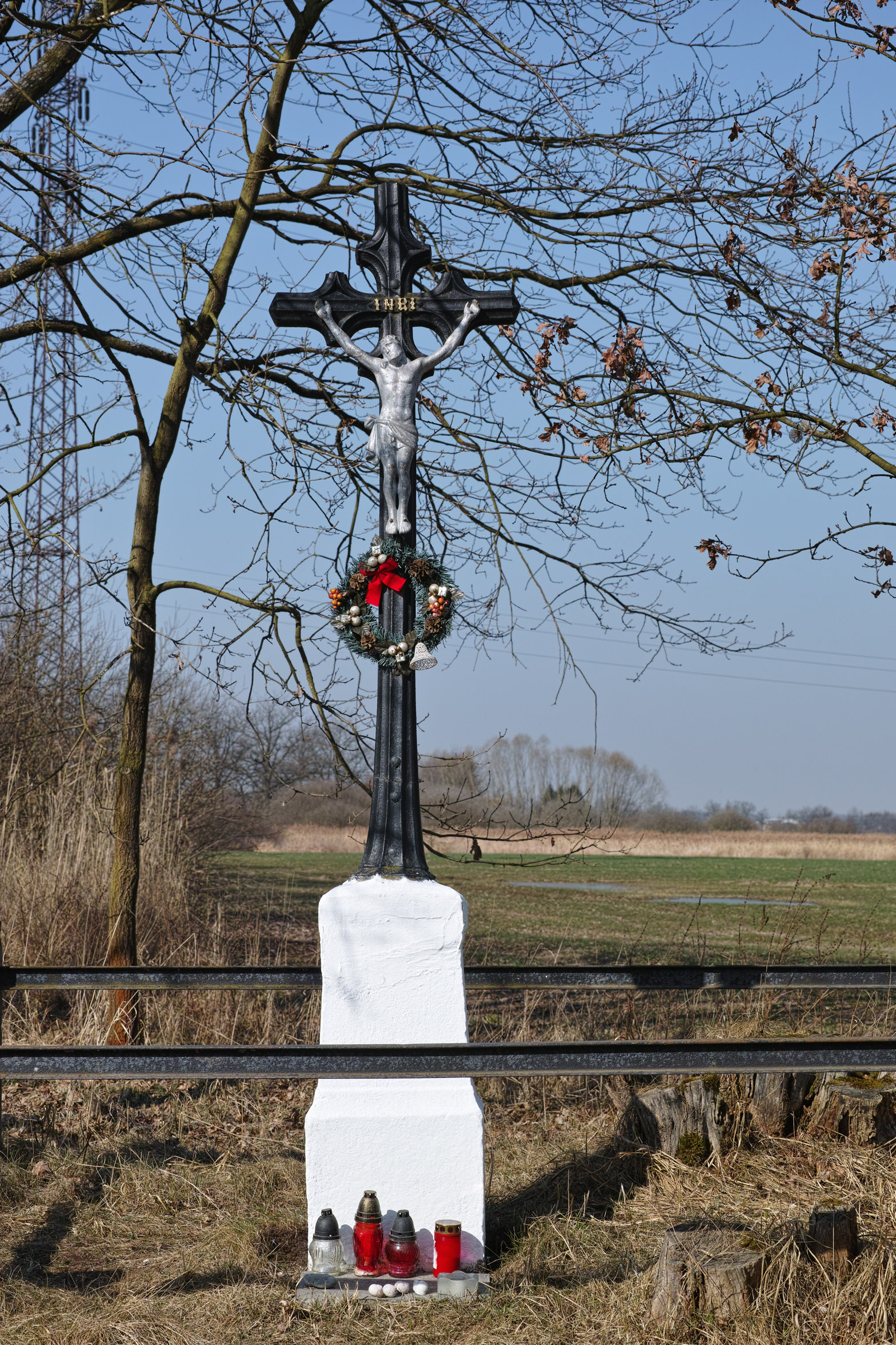 Wayside cross near Šnejdlík pond, České Budějovice, Czech Republic